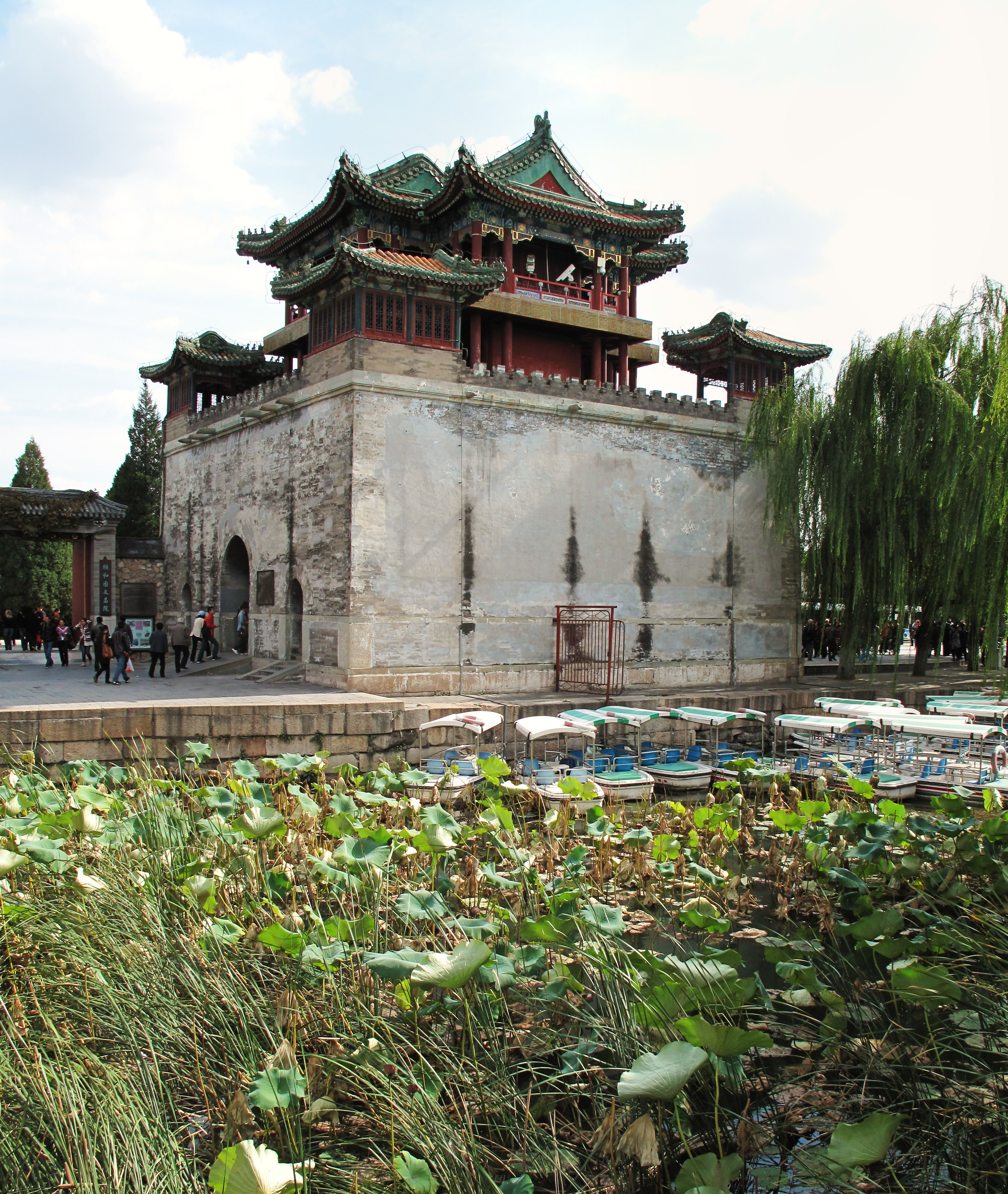 Tower in summer palace